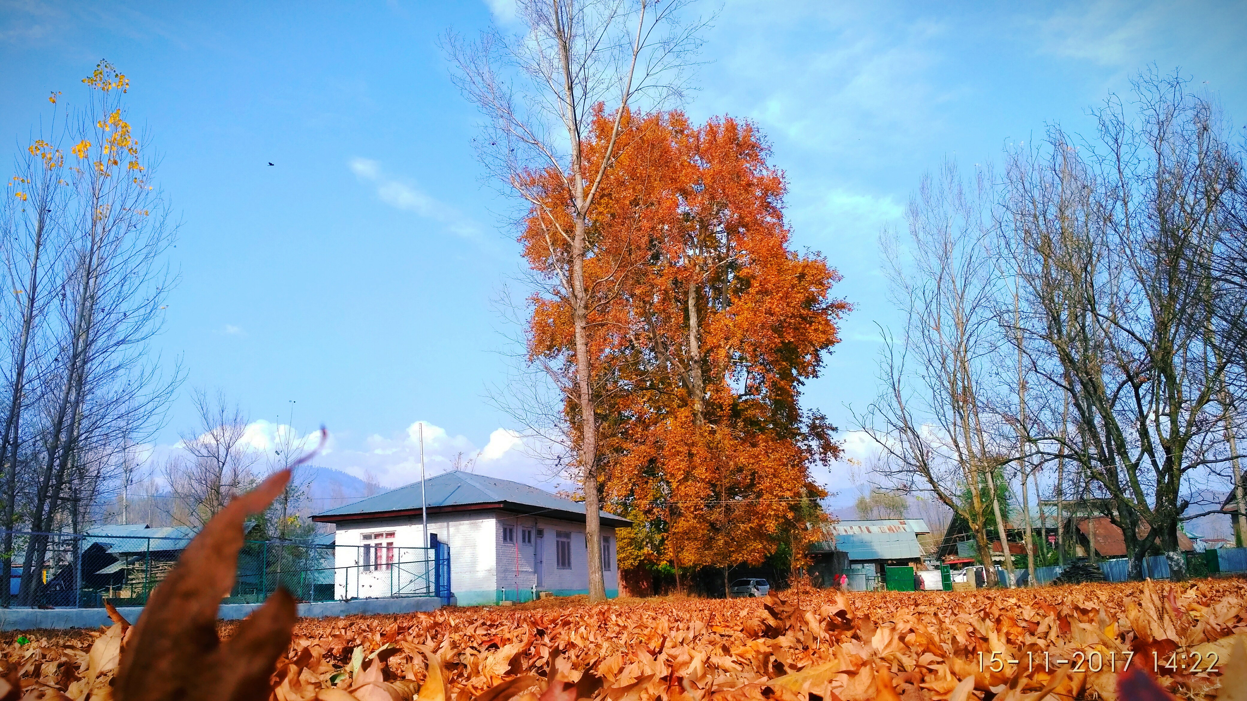 Hospital